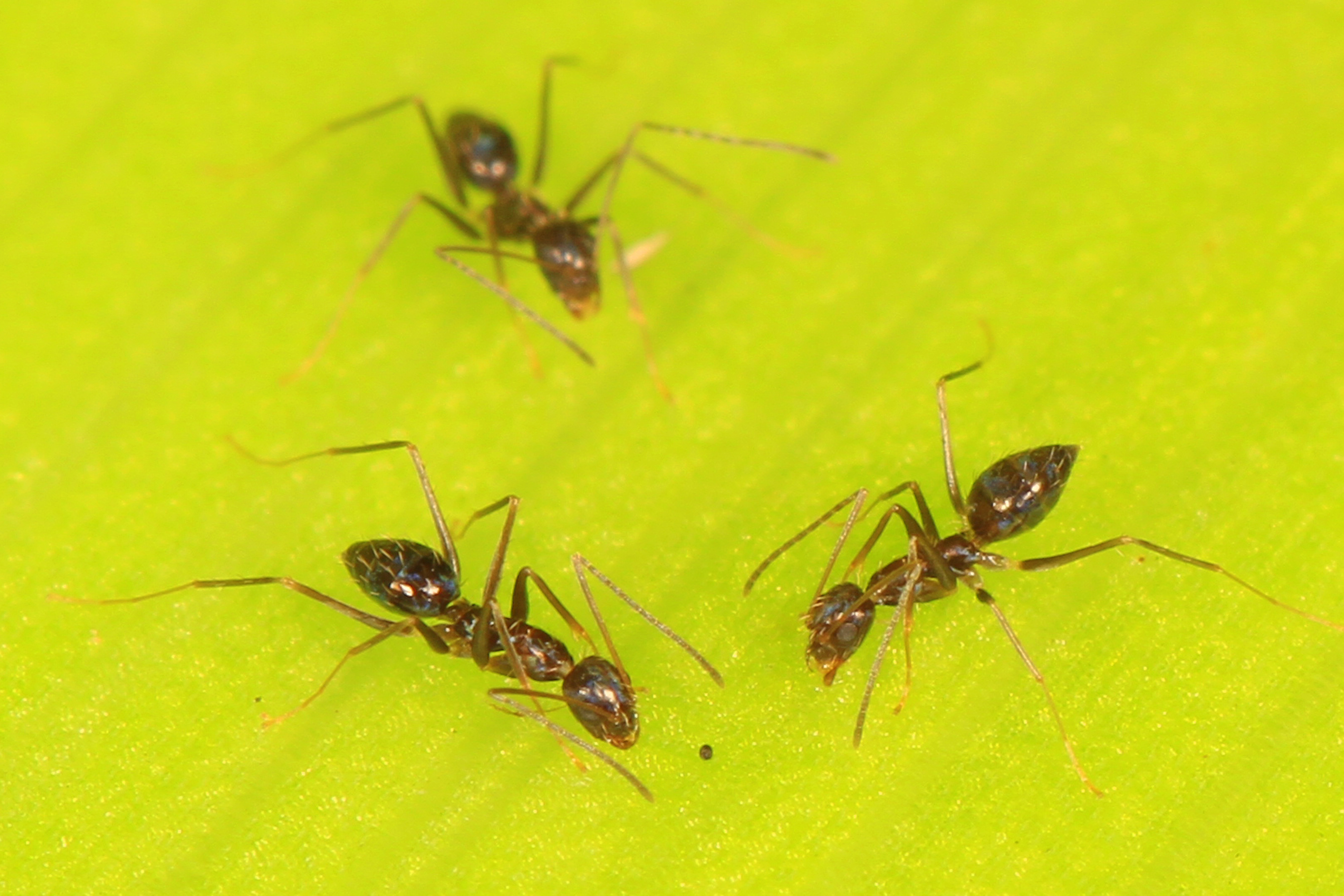 Longhorn Crazy Ant - Paratrechina longicornis, Dagny Johnson State Park, Key Largo, Florida